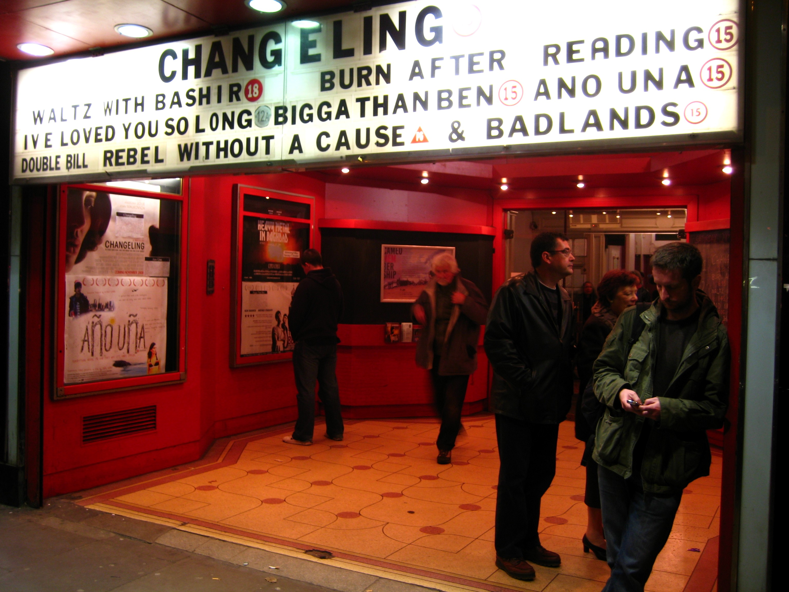 Cinema projecting differents movies in Edinburgh